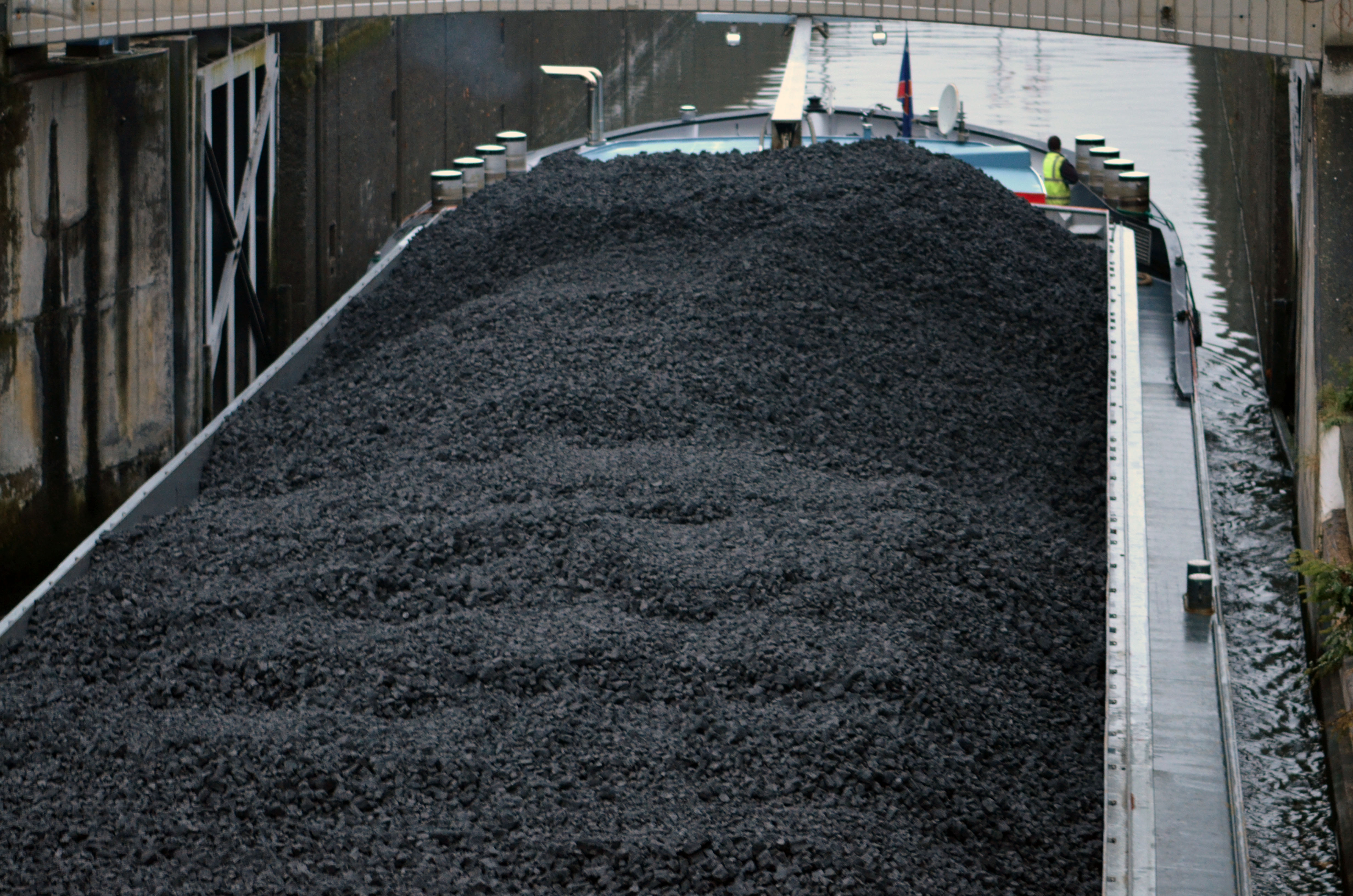 Transport of coal by barge, in the lock "the Grand-Carré" in Lille (North of France) on the Deule canal.